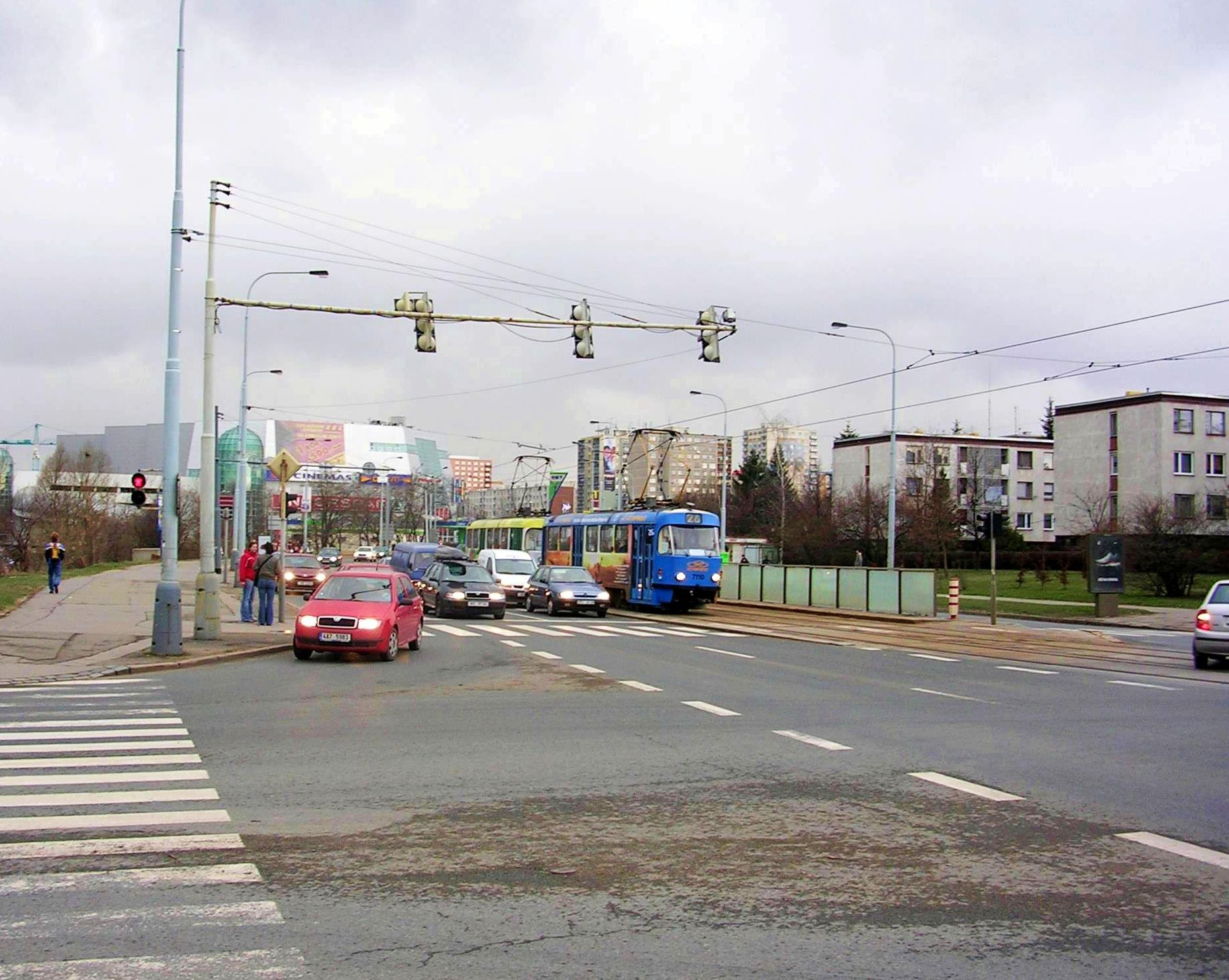 Hostivař, Prague, the Czech Republic.